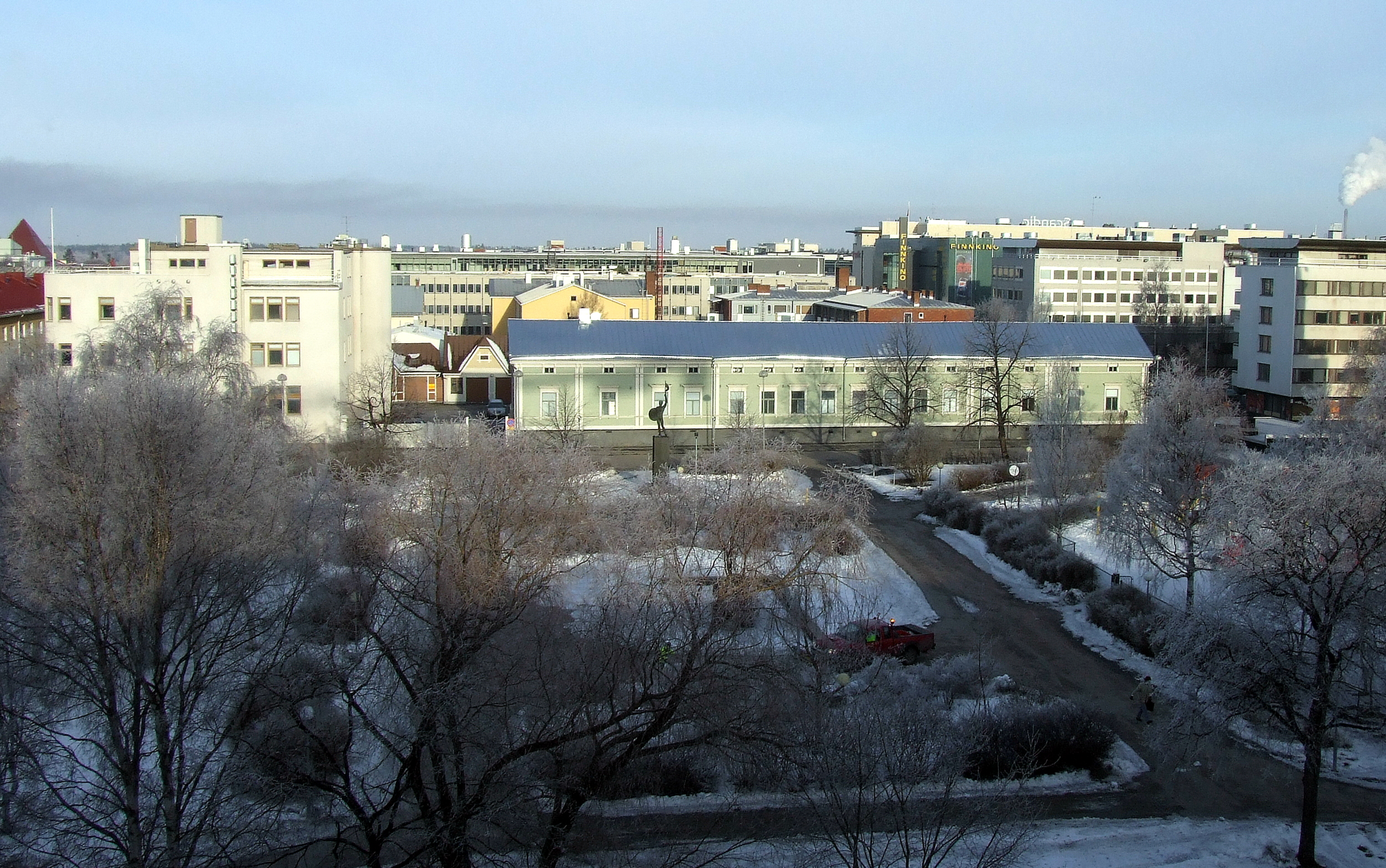 Mannerheim Park of Oulu in the winter